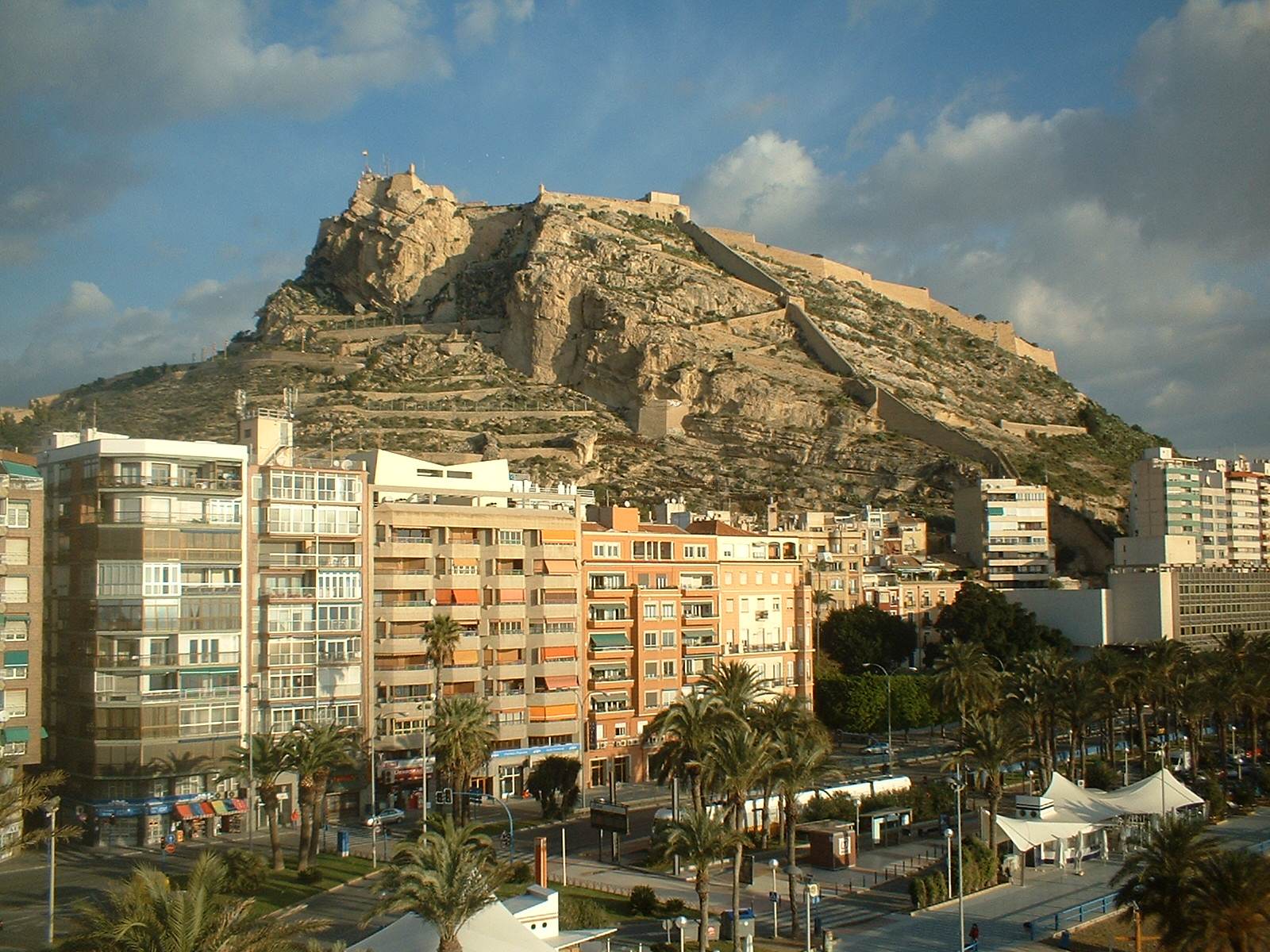 View of Alicante (Spain), with the mountain of Benacantil and the castle of Saint Barbera in the background.